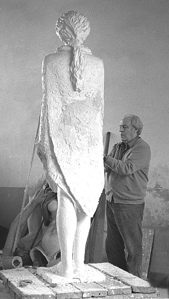 Memos Makris, Αγαμέμνων Μακρής, Μέμος Μακρής, Makrisz Agamemnon